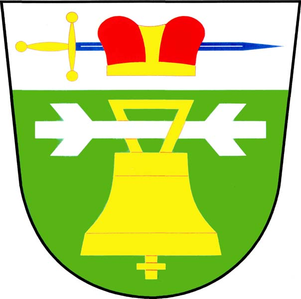 Coat of amrs of Drevníky , District Příbram, Czech Republic